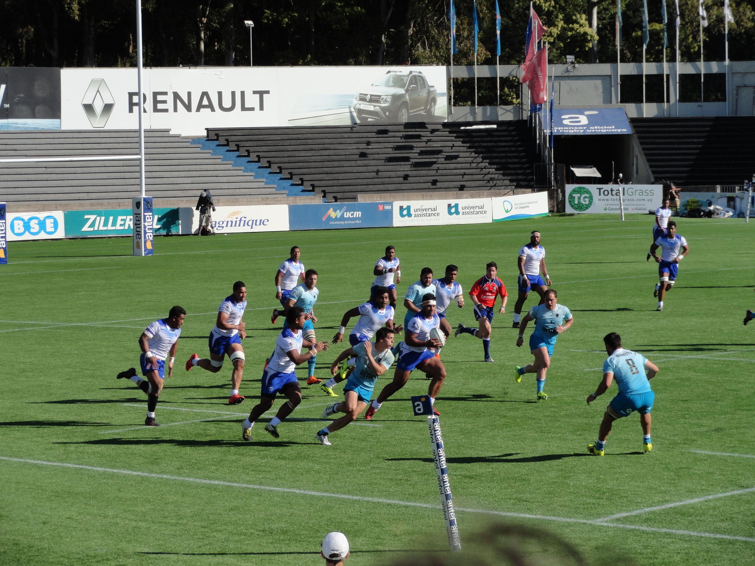 Uruguay XV vs Samoa rugby union match at the 2018 Americas Pacific Challenge